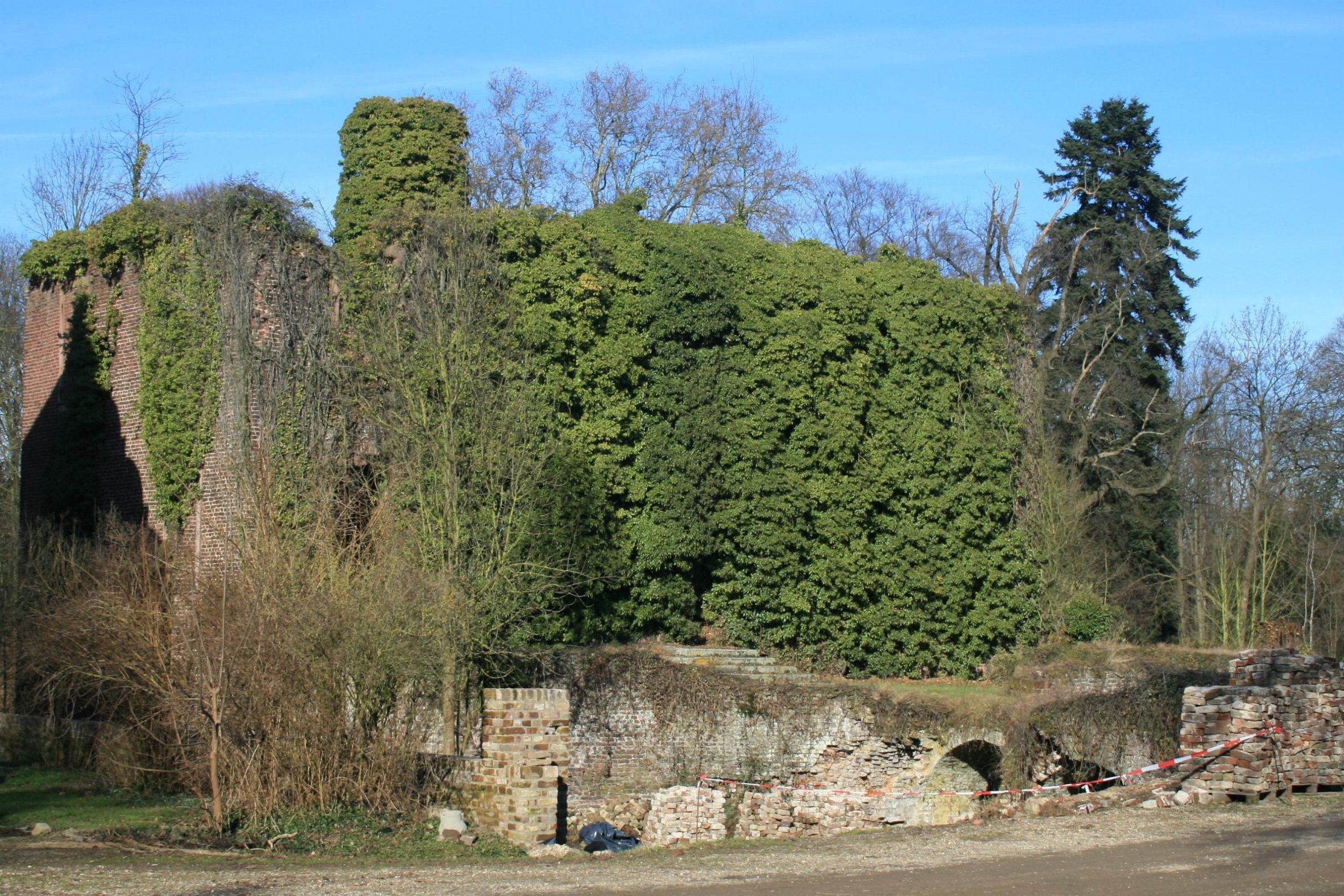 Cultural heritage monument No. 67 in Jülich